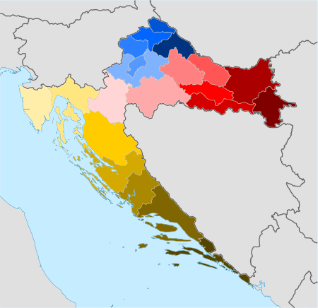 450 px wide map of Croatian counties